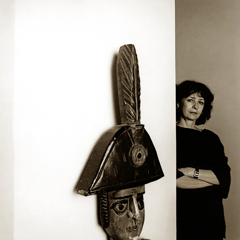 Angela Pagano portrait - Augusto De Luca photographer